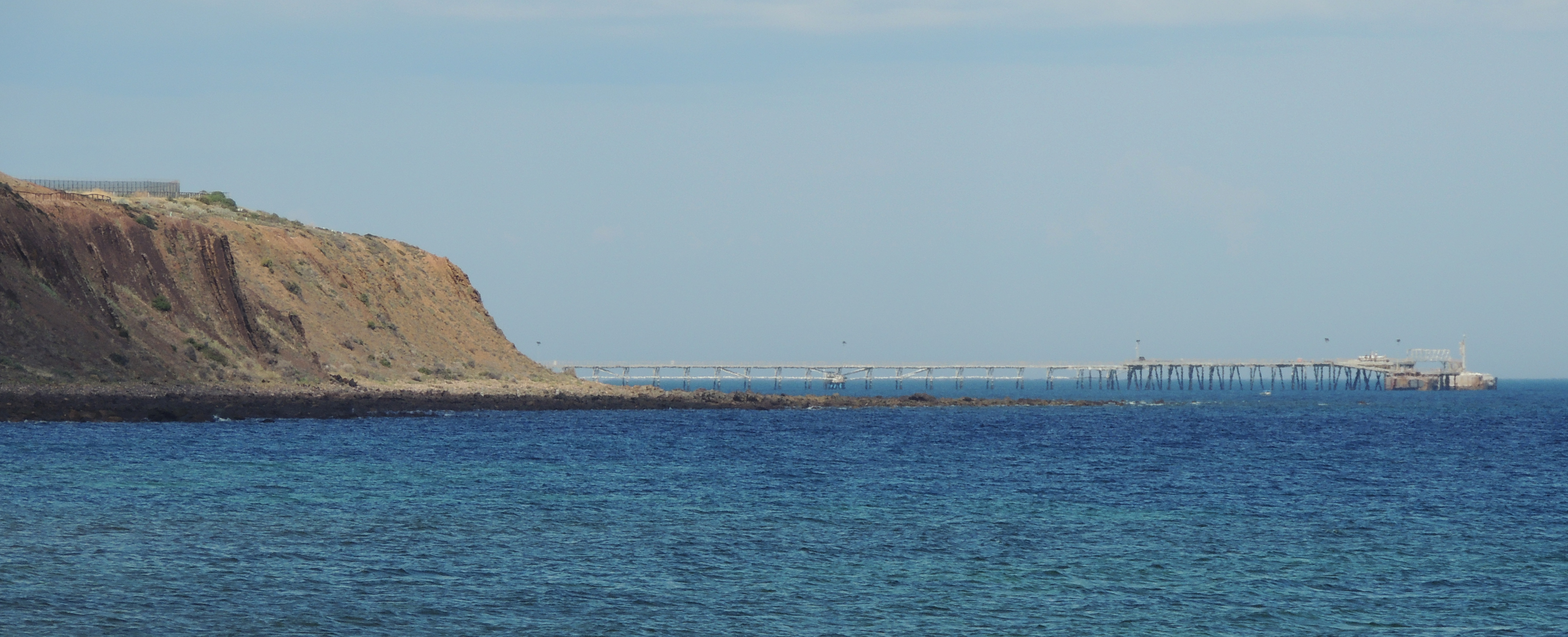 Port Stanvac jetty viewed from Hallet Cove Beach, South Australia in March 2016